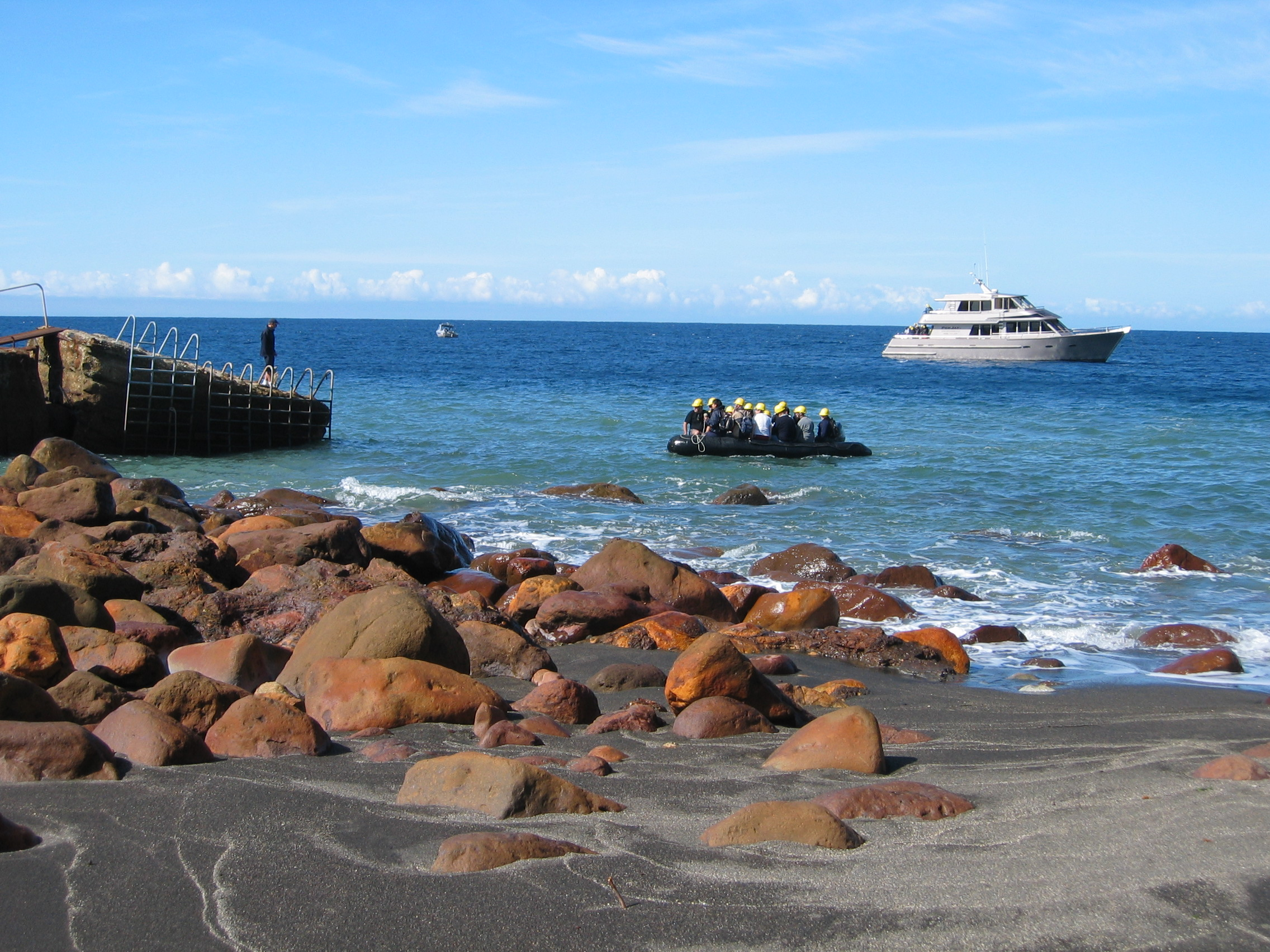 Tourists coming in to land on White Island, New Zealand's most active volcano.